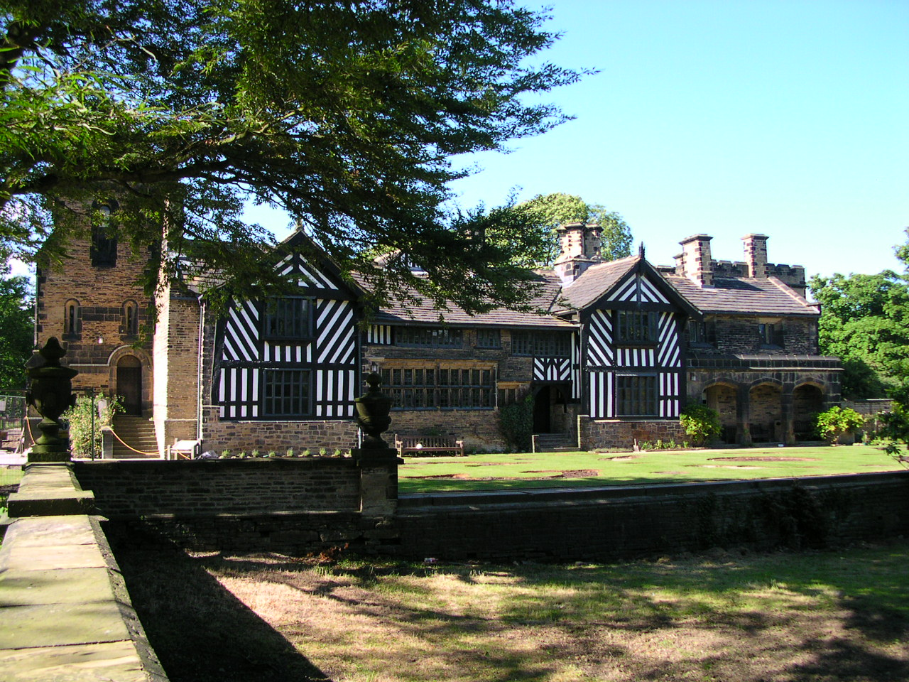 Shibden Hall, Halifax, West Yorkshire, England.